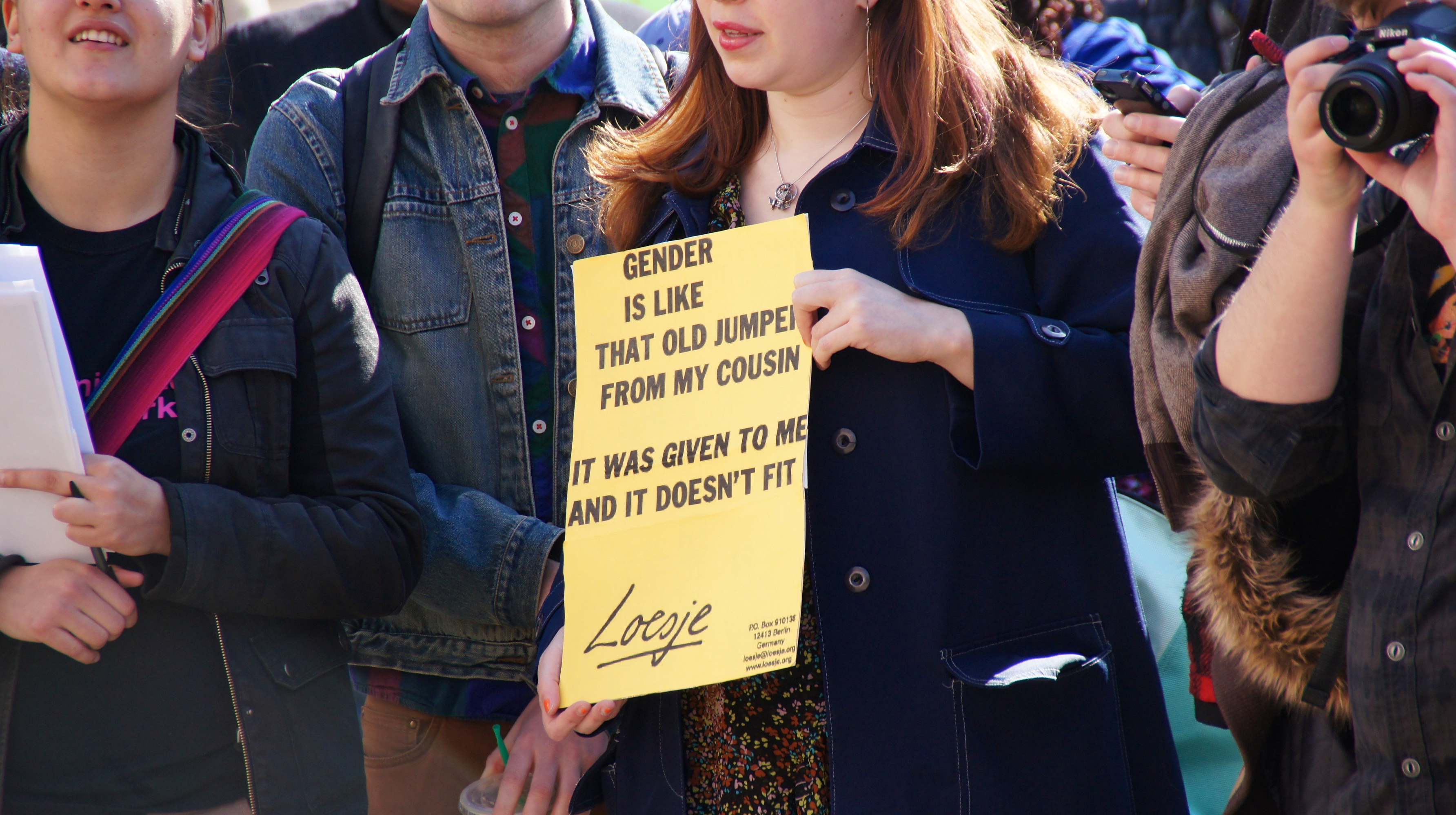 An unidentified person holds a sign that reads, "Gender is like that old jumper from my cousin: It was given to me and it doesn't fit," at a rally for transgender rights.